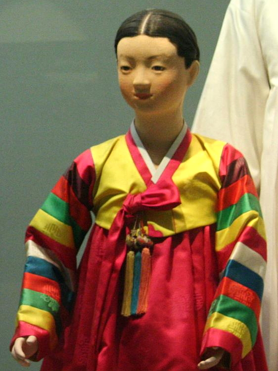 A model of a young girl in the late Joseon period wearing hanbok, Korean traditional costume has been displayed at National Folk Museum of Korea, Seoul, South Korea.